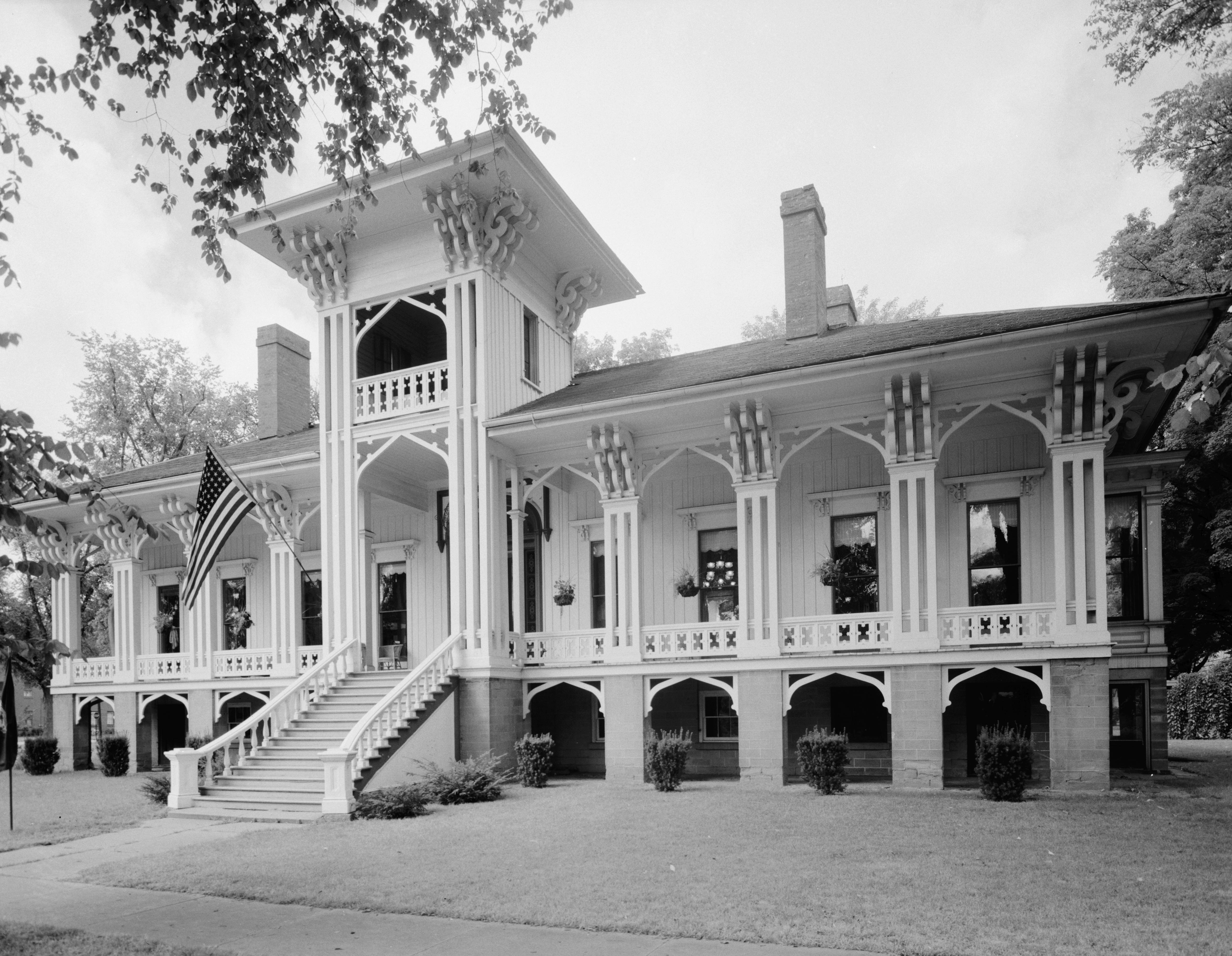 Front and southern side of the Abner Pratt House, located at 107 N. Kalamazoo Avenue in Marshall, Michigan, United States. Built in 1860, it is listed on the National Register of Historic Places.